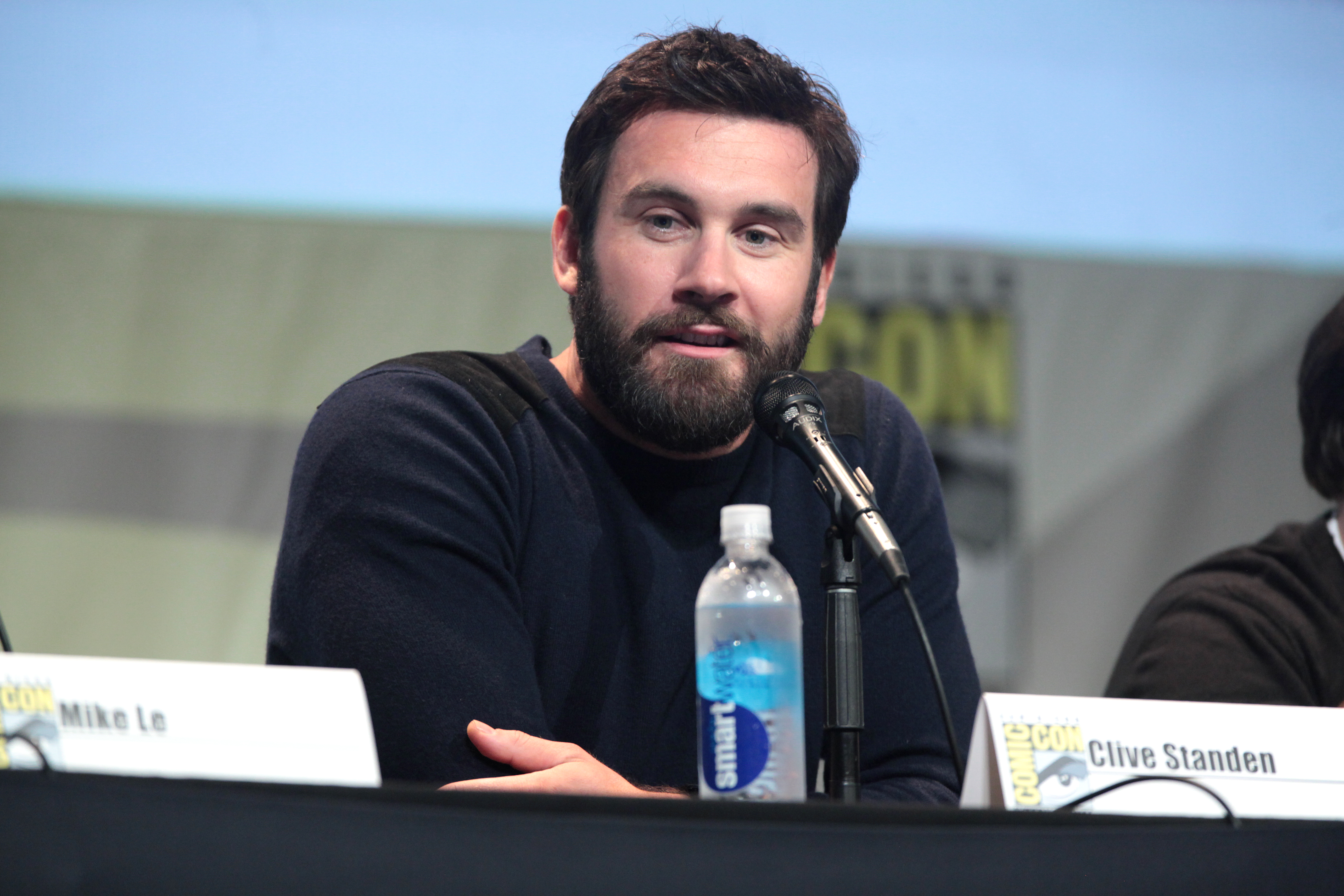 Clive Standen speaking at the 2015 San Diego Comic Con International, for "Patient Zero", at the San Diego Convention Center in San Diego, California.